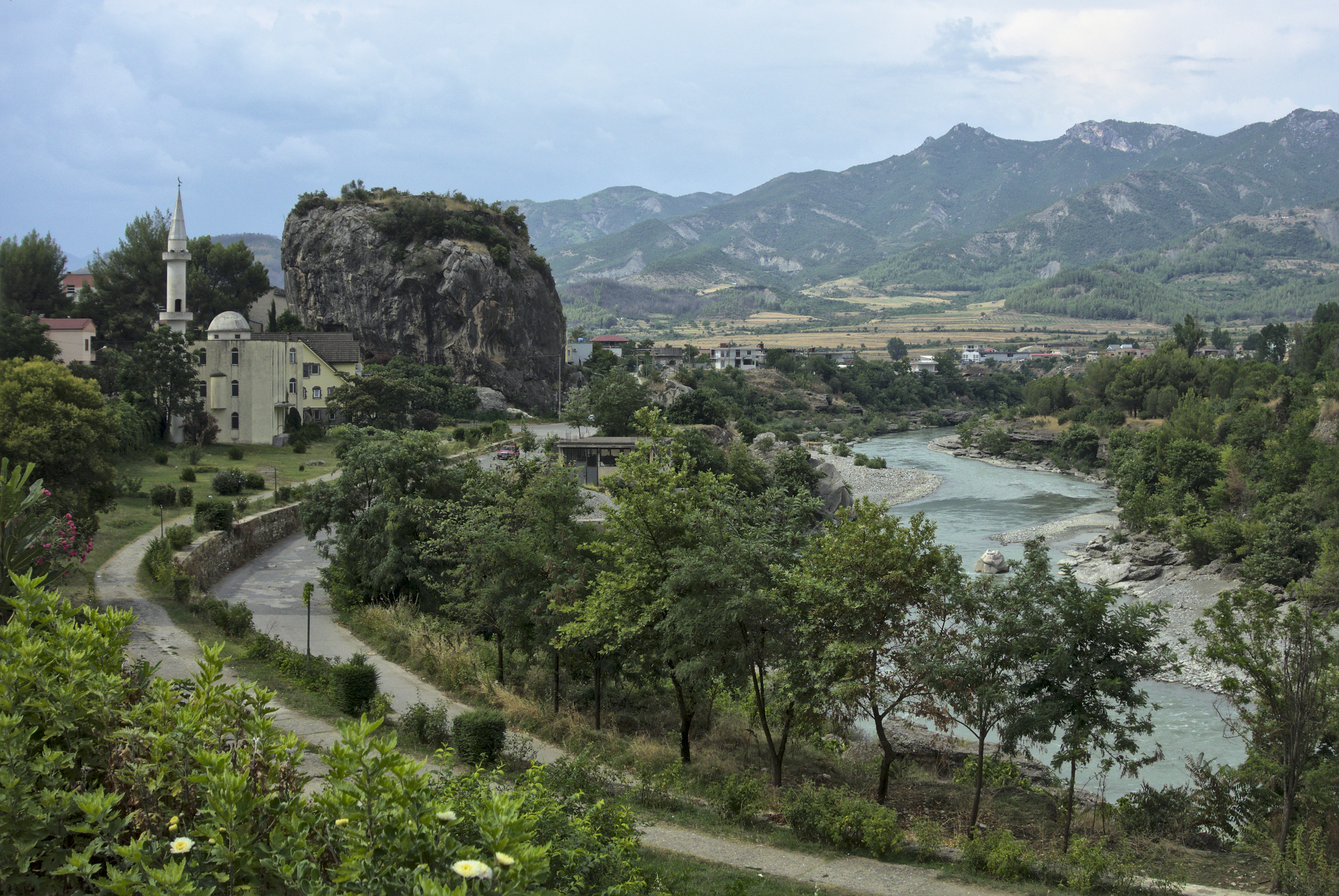 The stone of the city, a mosque and river VjosaShqip: Gur i Qytetit e lumi Vjosa